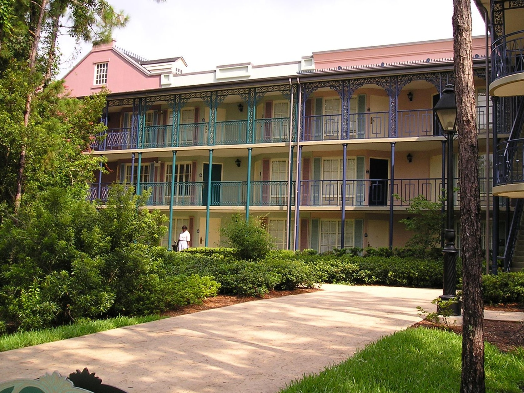 An example of the styling seen in the Port Orleans French Quarter Resort. (Building One)